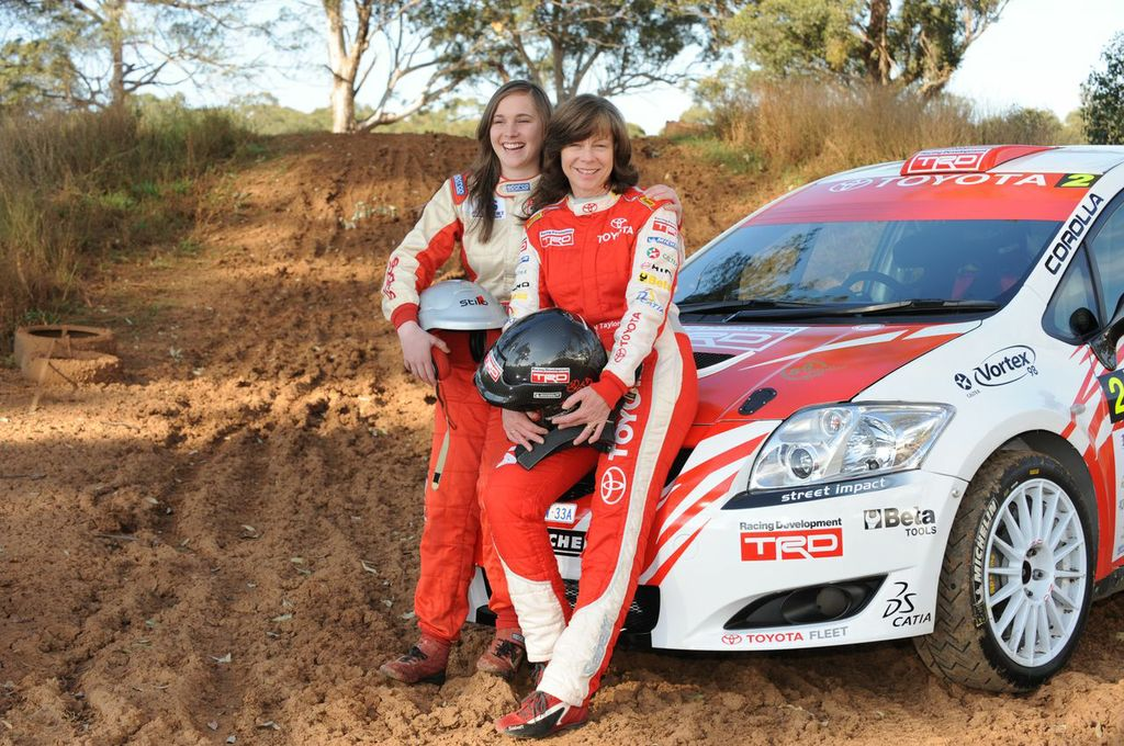 Molly Taylor and mother Coral Taylor